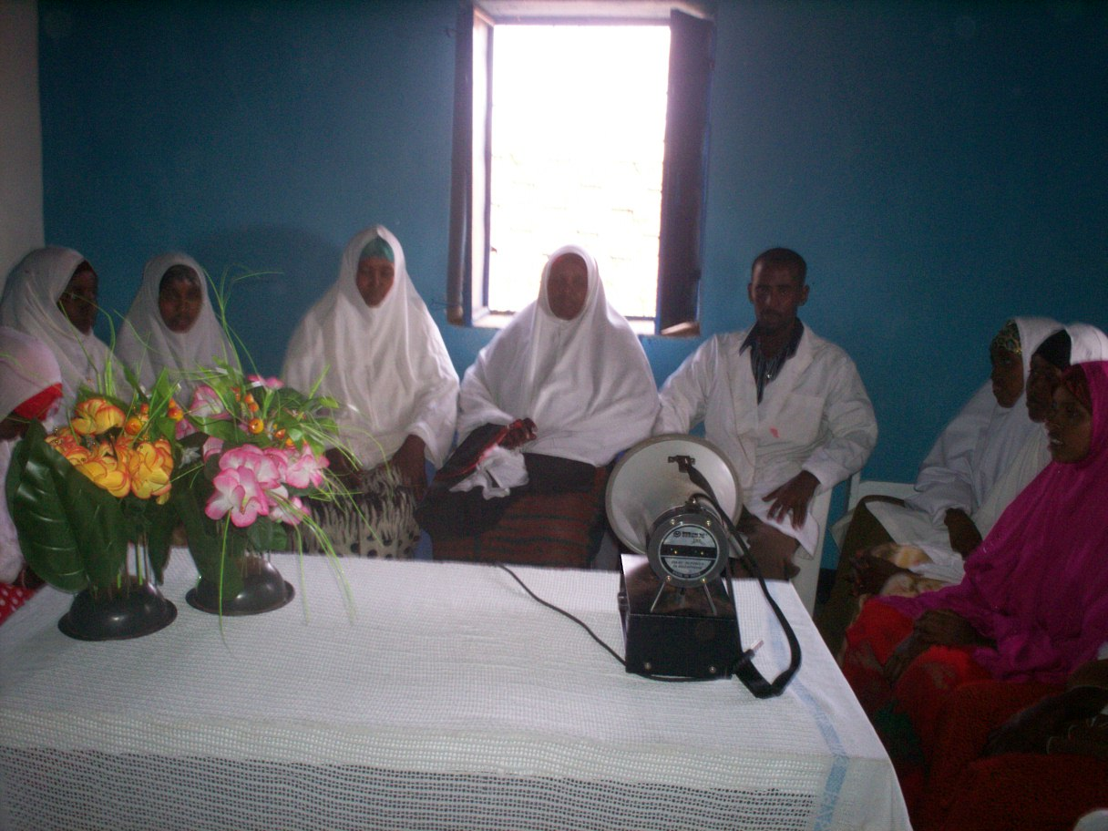 The first gathering of Abudwak Maternity Hospital's staff meeting.